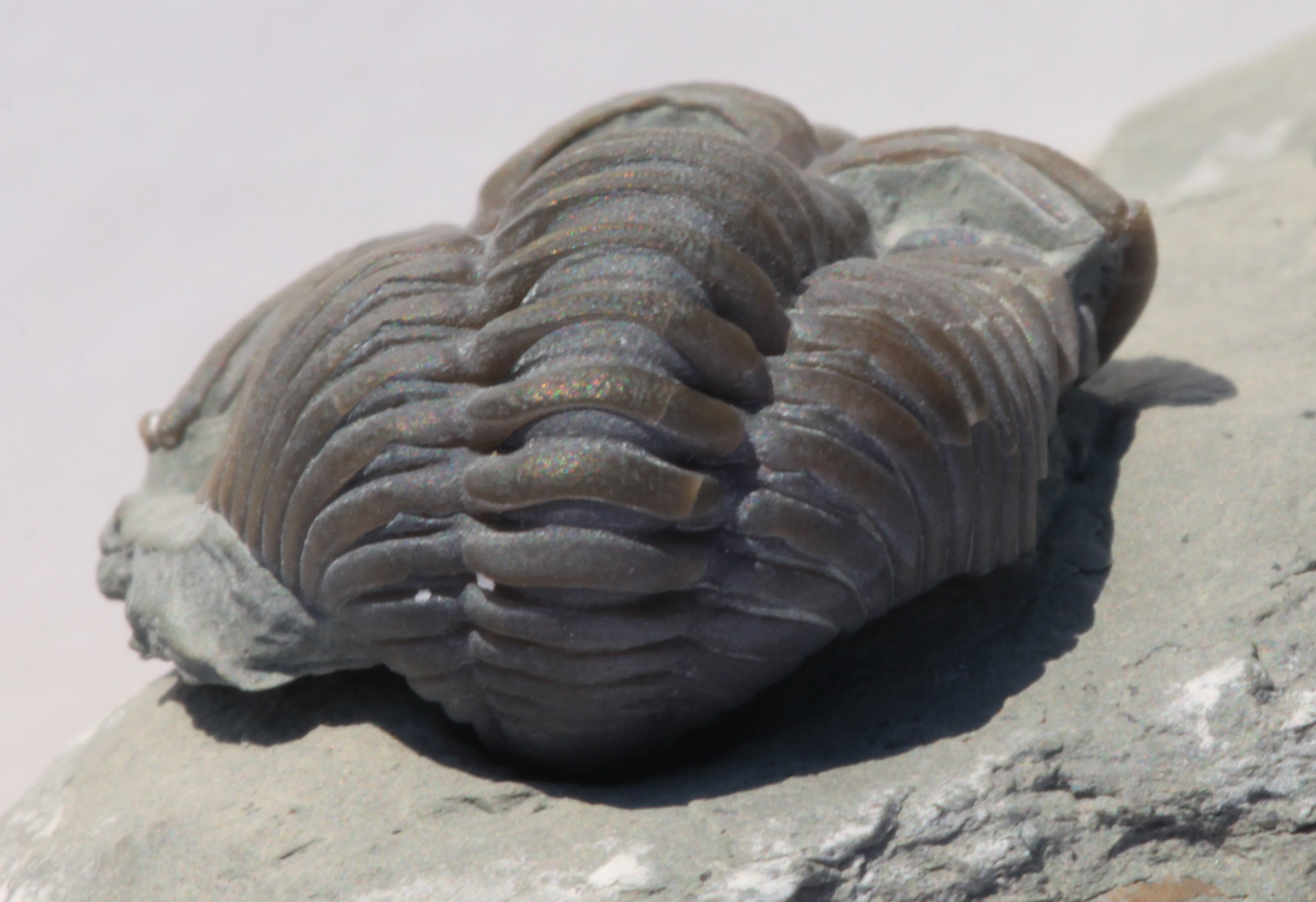 A Flexicalymene meeki trilobite, Order Phacopida, Family Calymenidae, 34mm measured over the arched axis, view of the thorax from the back, collected at Mount Orab Ohio, USA, from the Richmond Formation, Upper Ordovician (Katian)